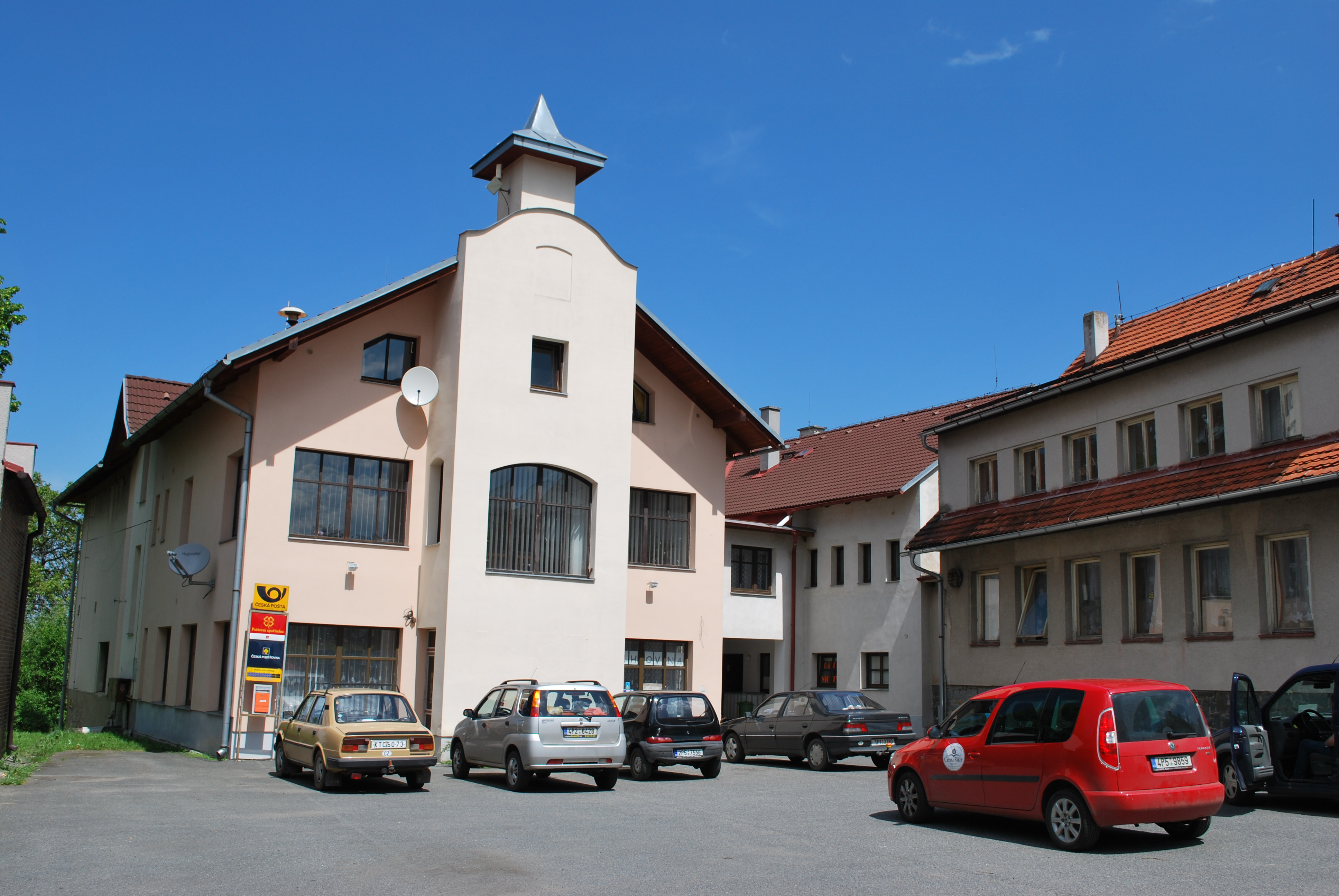 Strašín village in Klatovy District, Czech republic. This photograph was taken within the scope of the 'Czech Municipalities Photographs' grant.